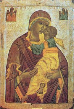 Blessed Virgin Mary of Eleventh, 15th c., TEMPERA, p. DOROSINI (VOLYIN MASTER)